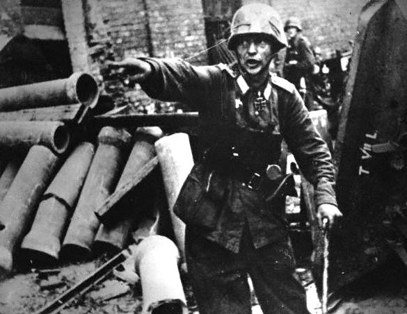 Warsaw Uprising: A German Wehrmacht officer on a captured barricade near Theater Square shouts orders to his men.